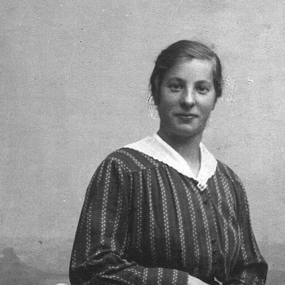 Gerda Palm from Porsarp and Astrid Andersson from Narback 1920s